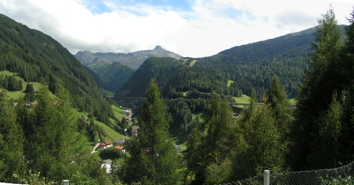 Panorama Brennerpass near Gries am Brenner (Aut) view direction Italy